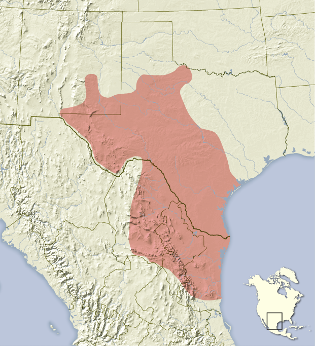 Distribution map of Ictidomys parvidens